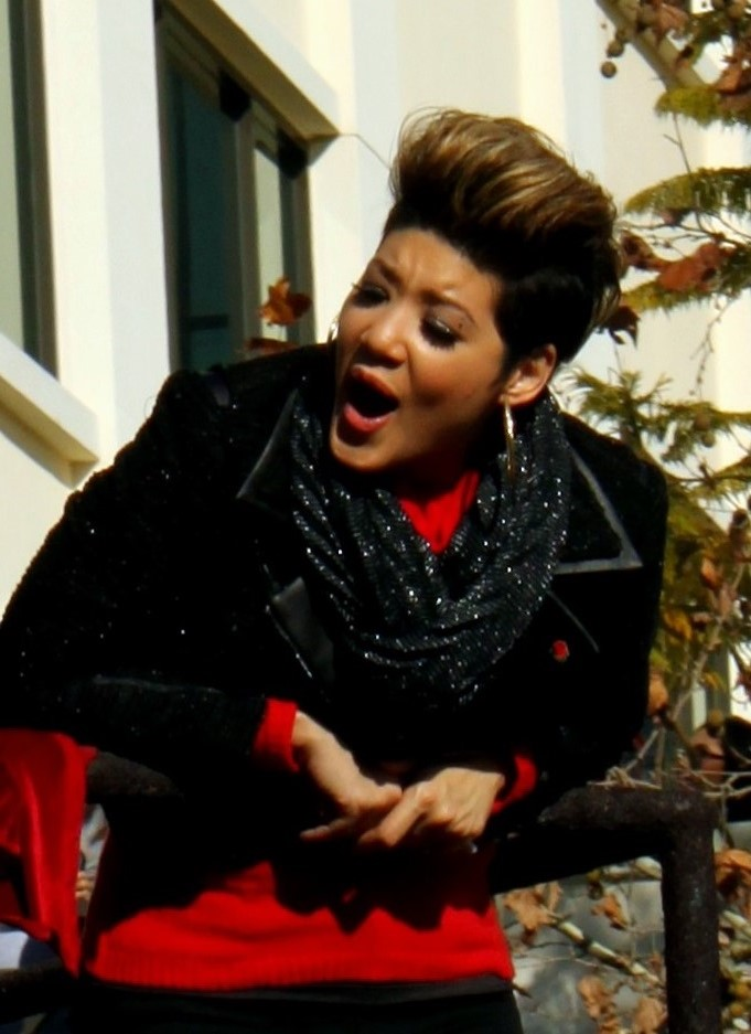 Tessanne Chin at 2014 Rose Parade, Pasadena, California